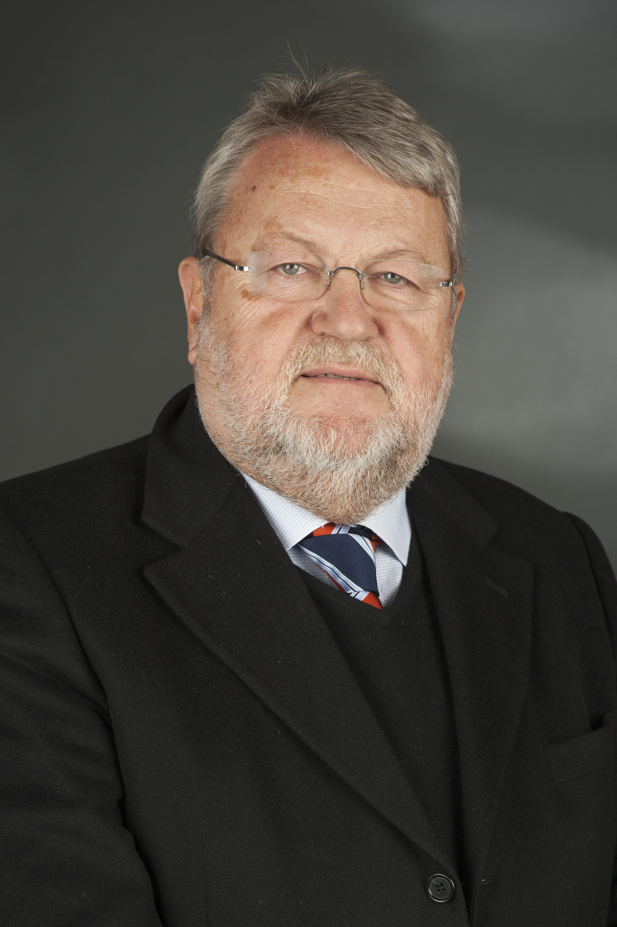 Robert Goebbels is a former Luxembourg government minister in and a Member of the European Parliament for the Luxembourg Socialist Workers' Party.